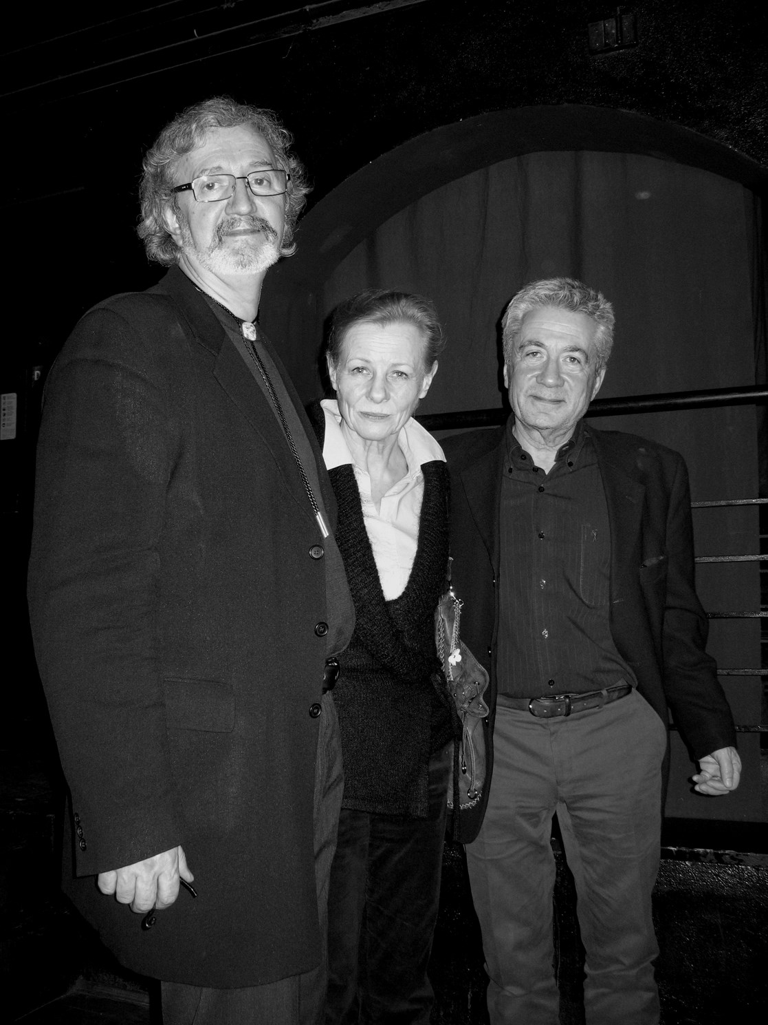 Daukszewicz & Nehrebecka & Byczewski in Warsaw (2009).